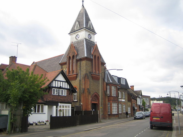 Loughton: Lopping Hall Lopping Hall was opened in 1884 and was paid for by The Corporation of London to compensate the villagers of Loughton for the loss of their traditional rights to lop trees in Epping Forest, rights which were bought out when the management of the forest was taken over by the Corporation in 1878. To the immense credit of the building management, and at a time when these things so often go neglected, the clock in the tower was reading the correct time on all façades. The road in the foreground is Station Road.